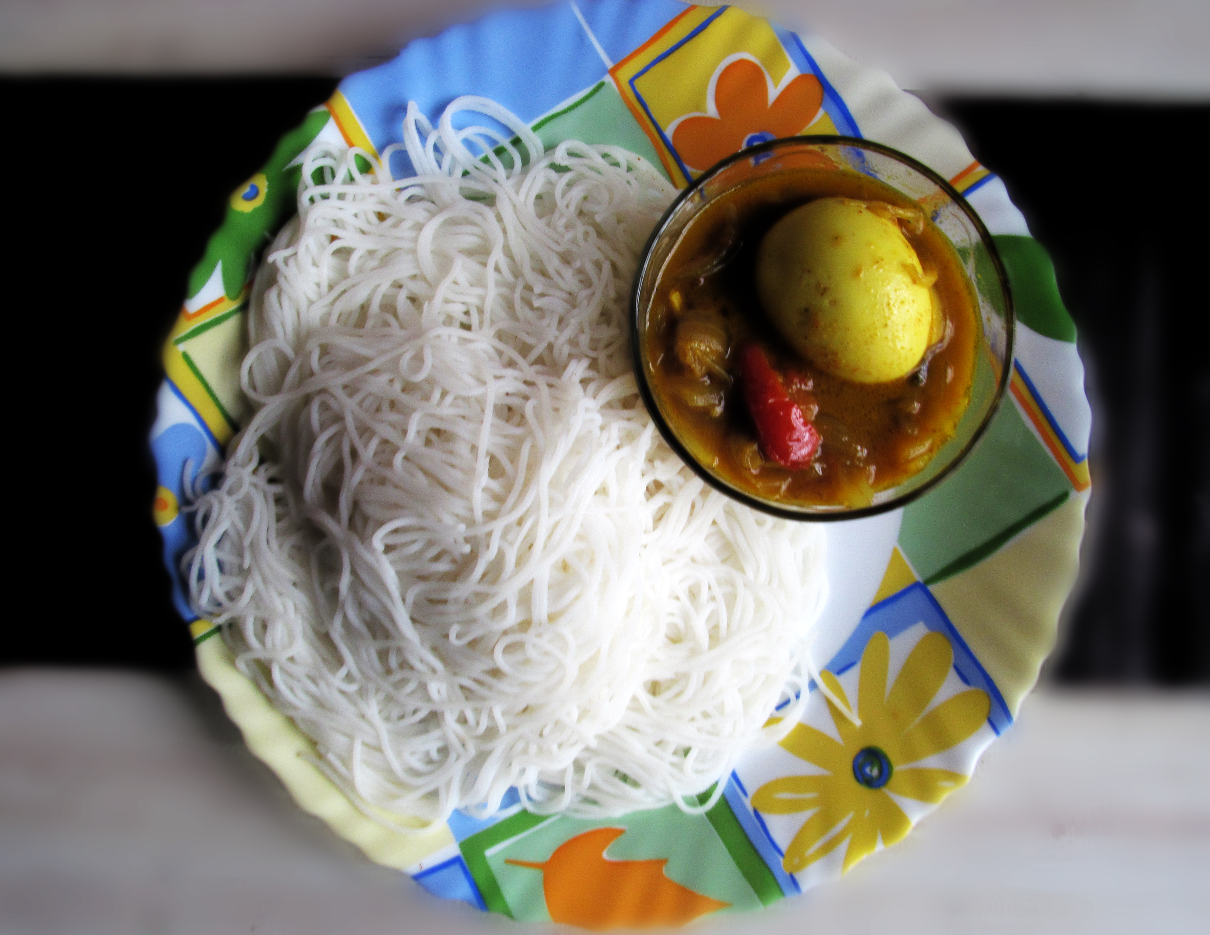 Idiyappam is a really popular dish enjoyed by all the Kerala people. It is made from rice flour. The flour is first made into a dough by mixing with hot water and then it is squeezed using a rice noodle maker. then is is steamed using a pressure cooker. Idiyappam can be enjoyed with many curries like Chicken curry, Egg curry, etc and also with coconut milk.